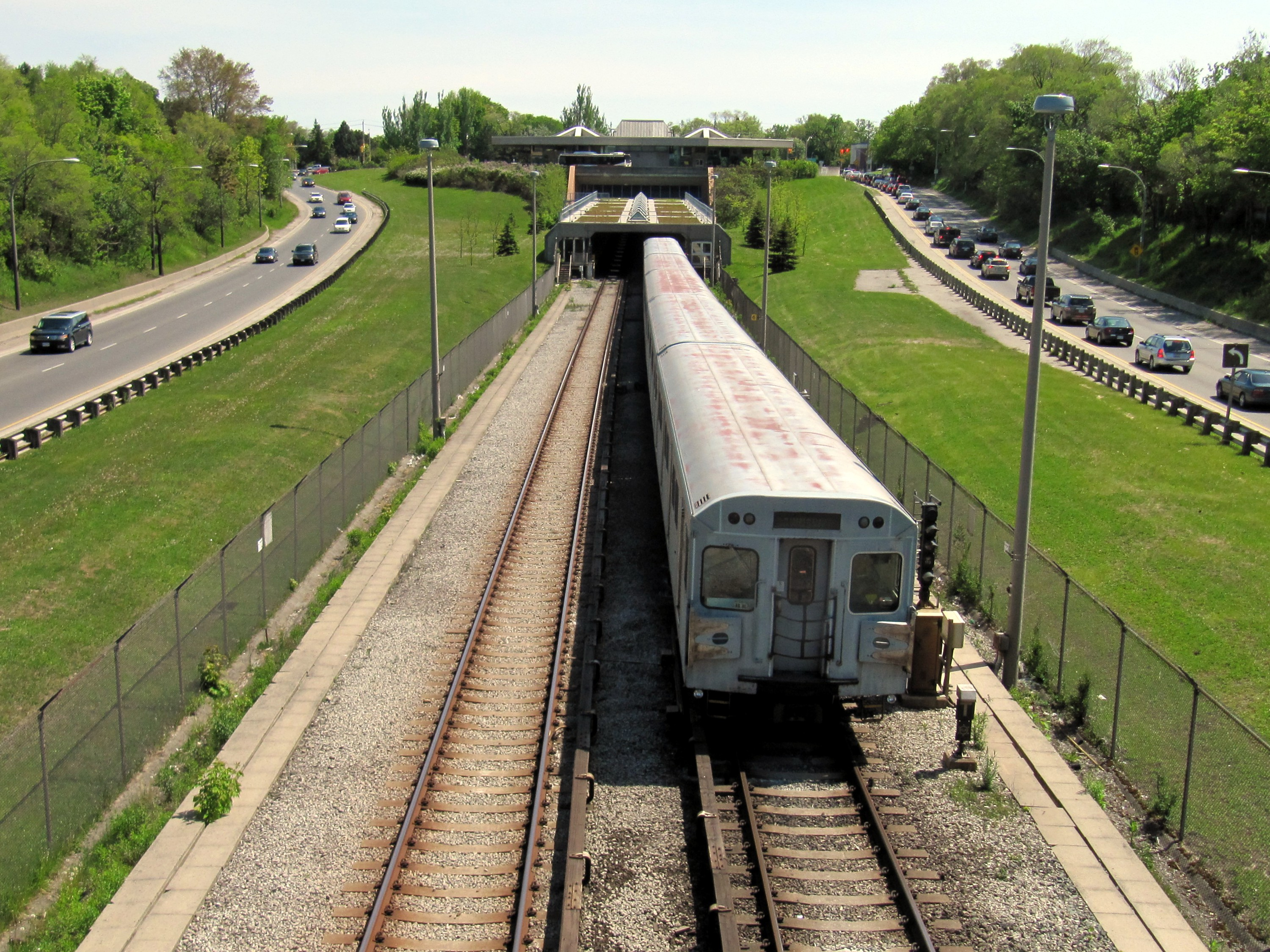 Southbound train pulling into Eglinton West TTC subway station in Toronto.